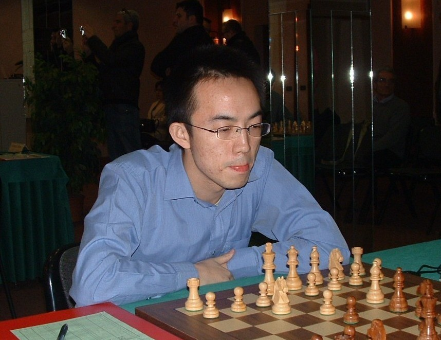 photo of chinese chess Grandmaster Ni Hua taken in Reggio Emilia